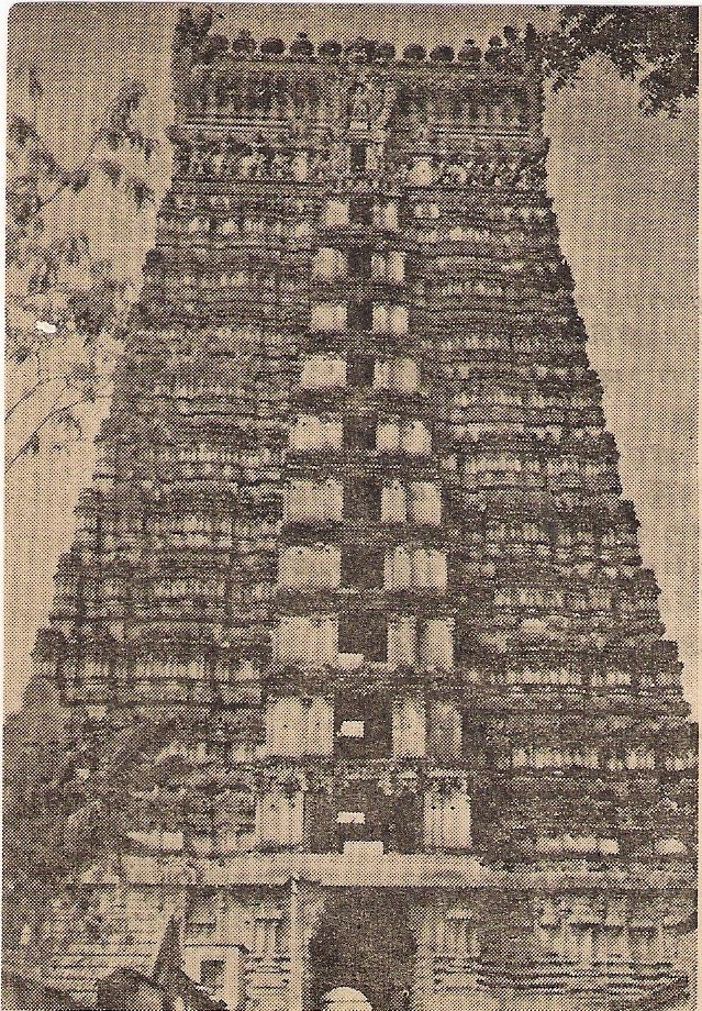 srivilliputtur andal temple tower in 1940.